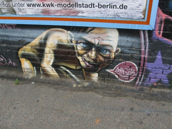 A graffiti art depiction of Gollum on the East Side Gallery of the Berlin Wall.